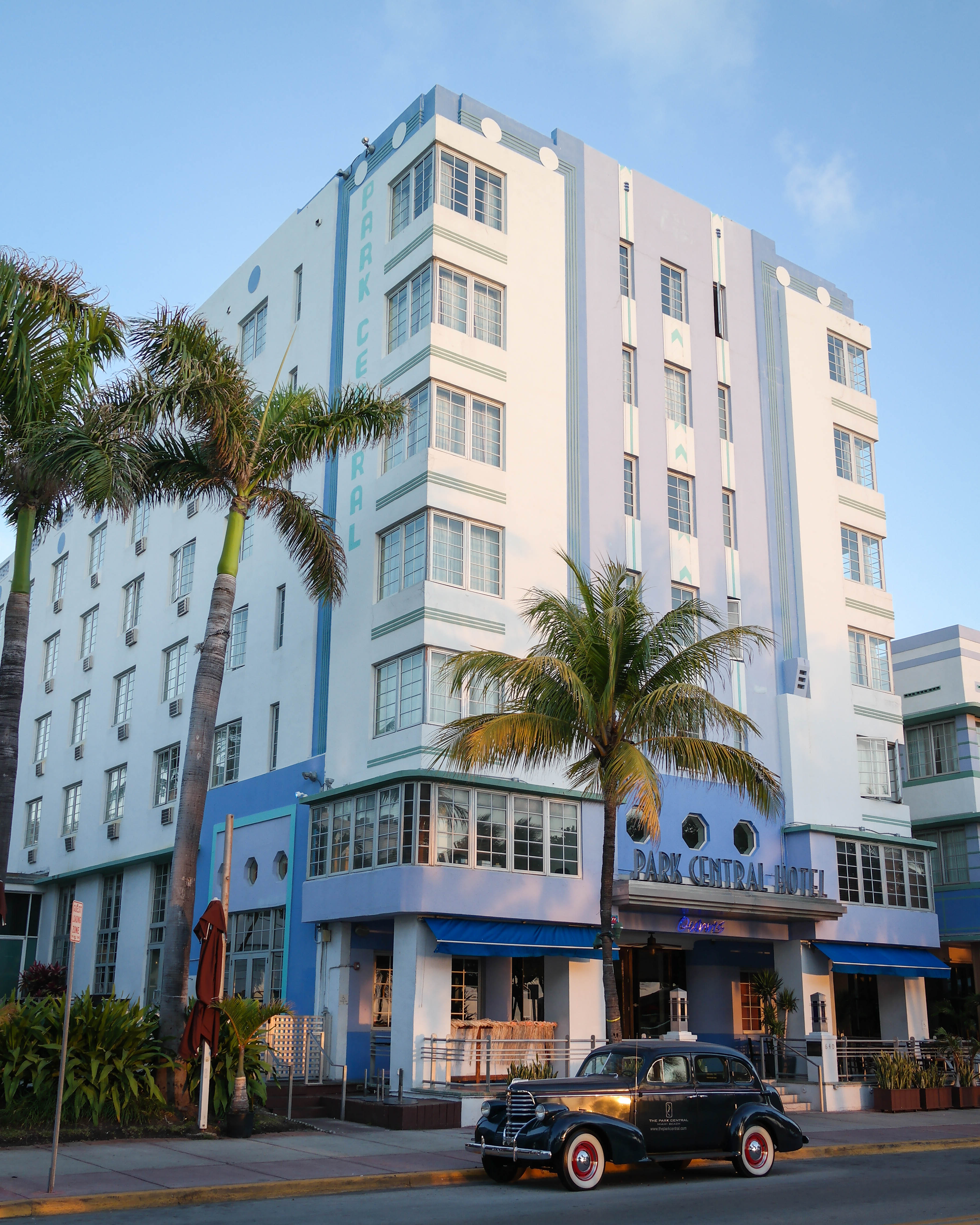 The Park Central Hotel in Miami Beach, Florida